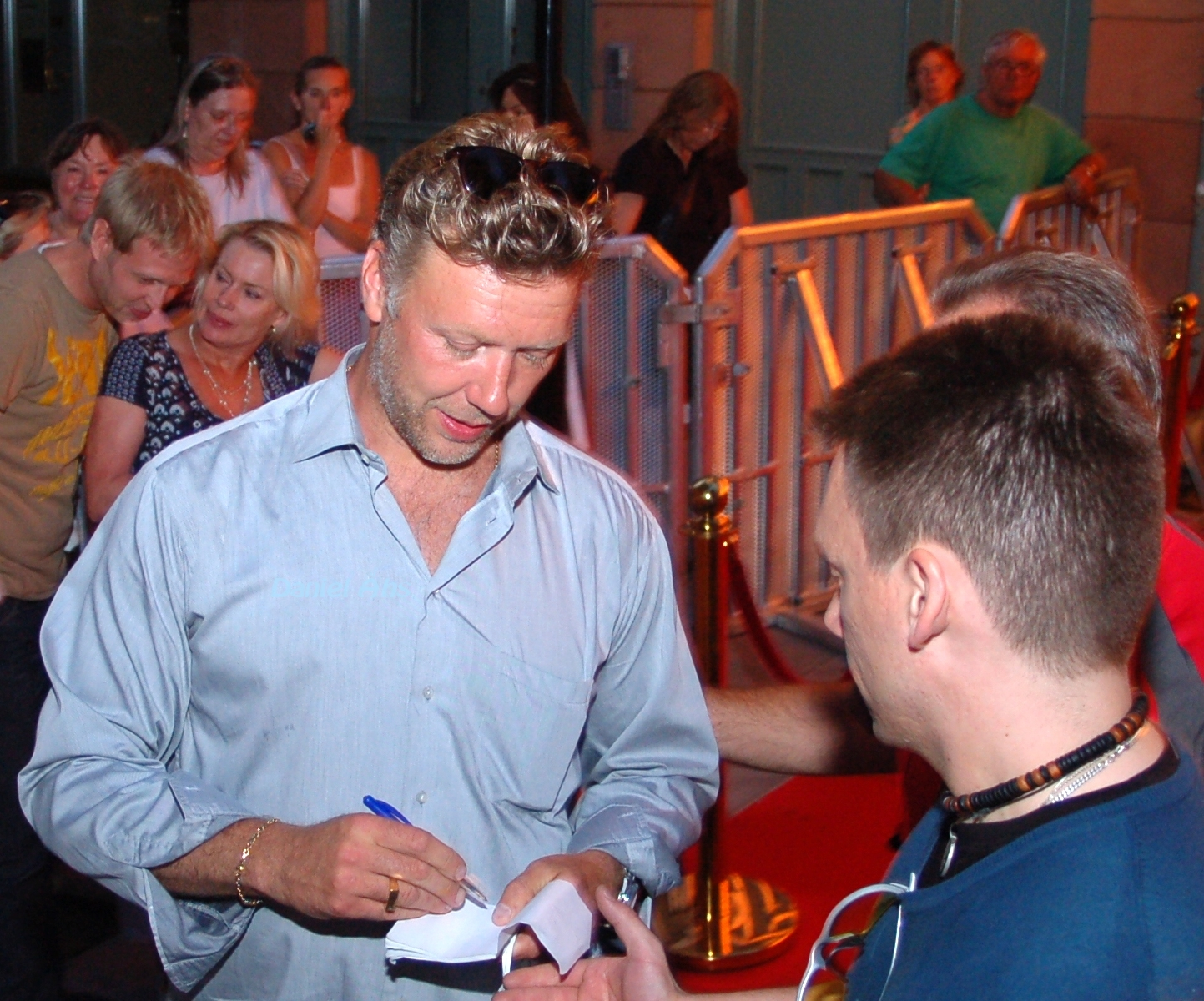 Mikael Persbrandt writ autographs in Stockholm